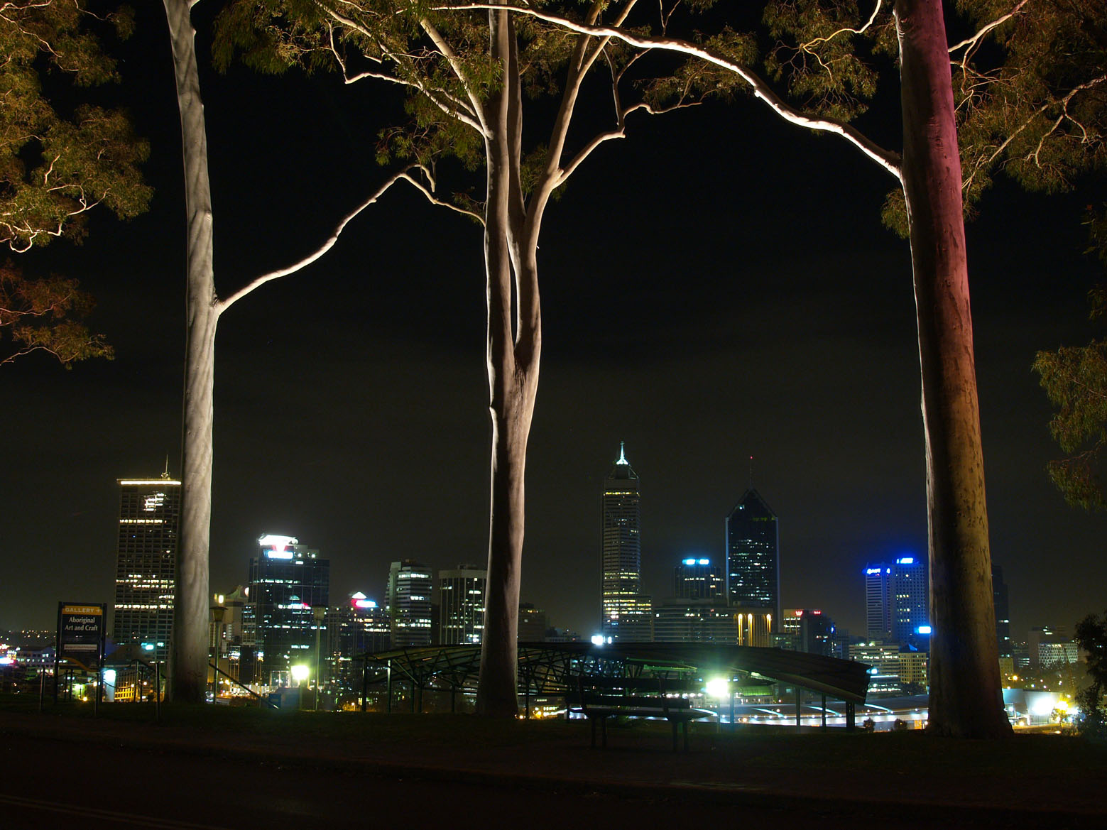 Perth, Western Australia, from Kings Park - at night